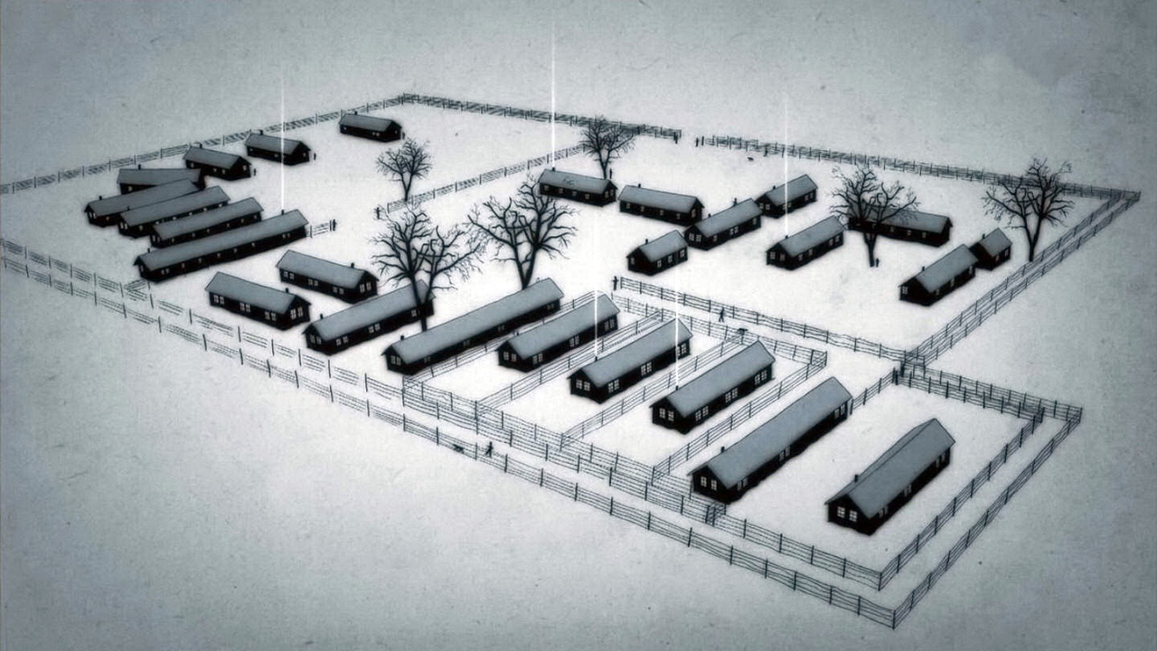 Wauwilermoos internment camp, bird's eye view respectively animated map on Notlandung, Canton of Luzern.